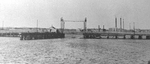 Old Cambridge Street Bridge in Cambridge, Massachusetts and Brighton, Massachusetts in 1910. This bridge stood at the site of the present River Street Bridge.